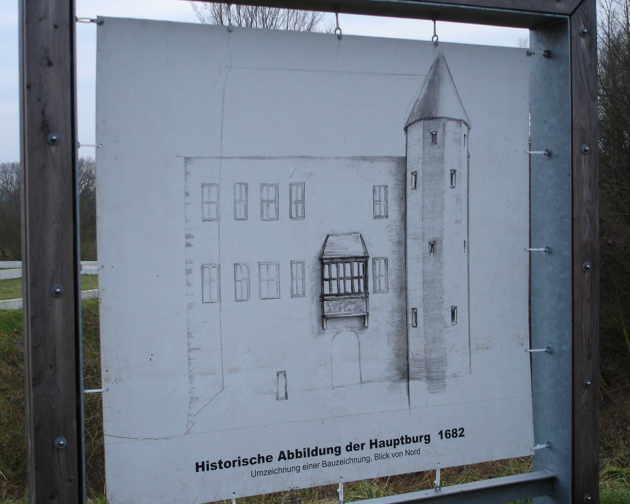 Table showing the main part of Castle Schöneflieth at 1682 in Greven, Westphalia, Germany